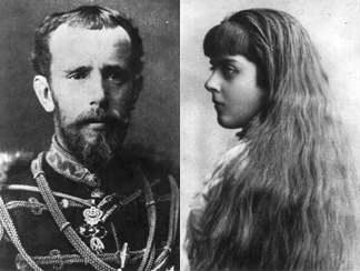 Combined Portrait Photographs of Crown Prince Rudolph of Austria and Baroness Mary Vetsera